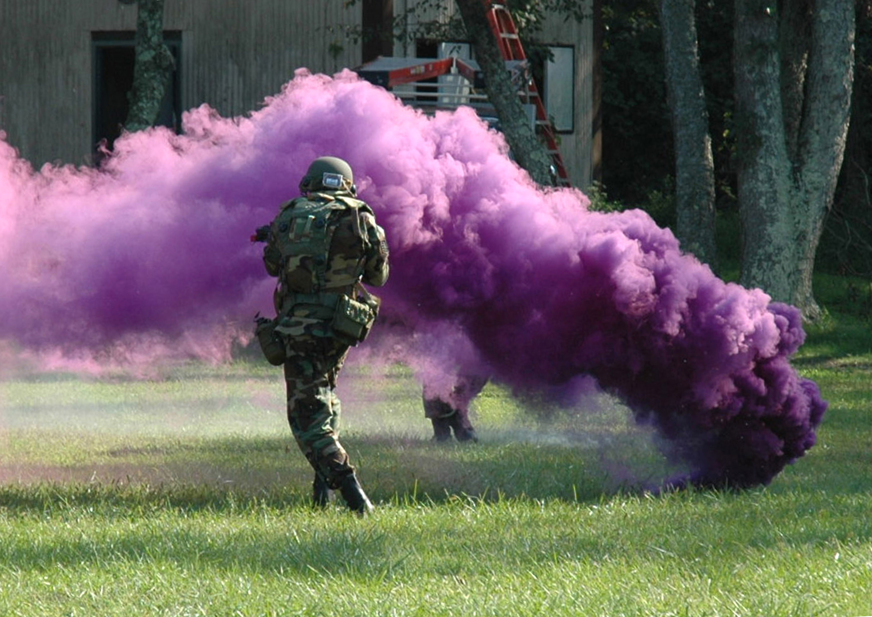 A student in the Air Mobility Warfare Center's Advanced Contingency Skills Training Course 06-5 at Fort Dix, N.J., deploys smoke during a training session at a tactical range there Sept. 18. More than 60 Airmen are participating in the training course, learning numerous combat-related skills including tactics, media skills, convoy operations, first aid, and field craft. The course is taught by the AMWC's 421st Combat Training Squadron. (U.S. Air Force photo/Tech. Sgt. Scott T. Sturkol)